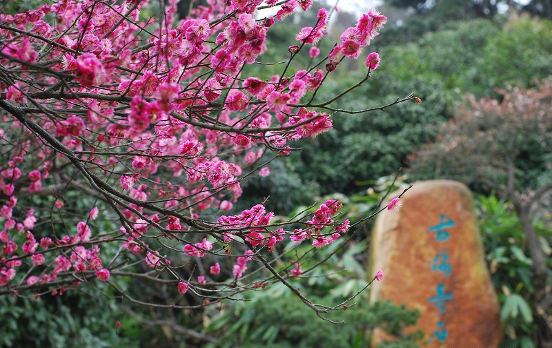 Meiyuan gardens in Wuxi, China